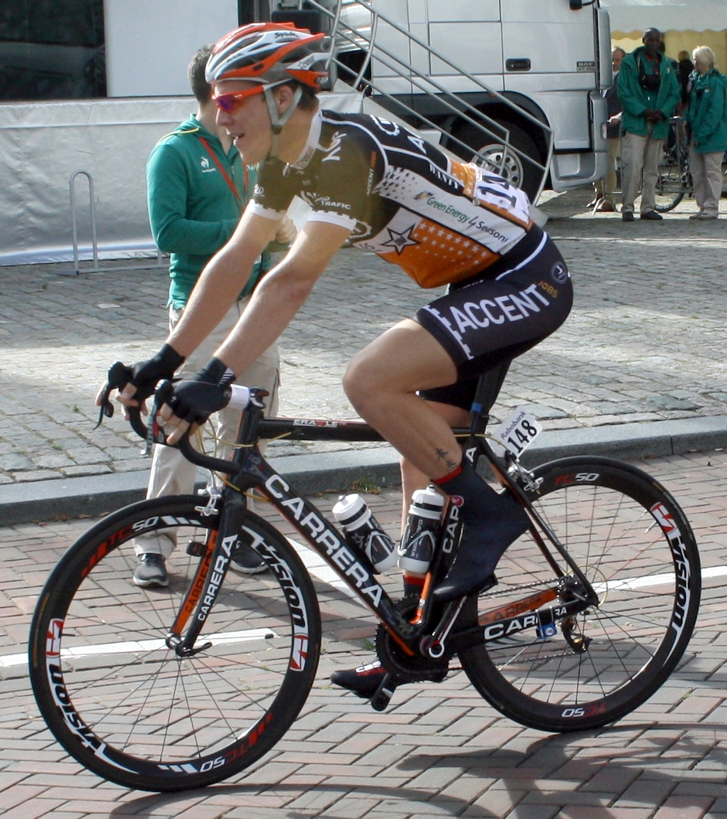 Benjamin Verraes before the start of stage 2 of the World Ports Classic 2013